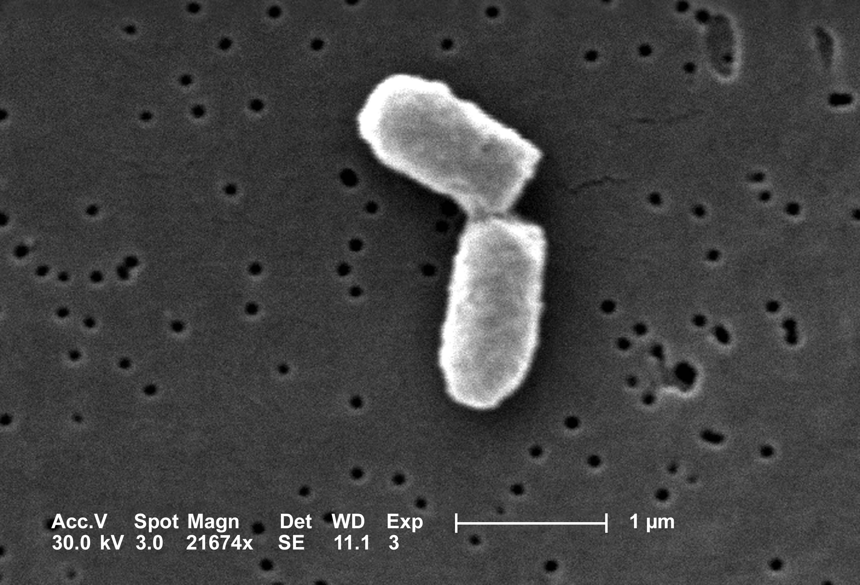 This scanning electron micrograph (SEM) depicts a highly magnified view of a dividing Escherichia coli bacteria, clearly displaying the point at which the bacteria’s cell wall was dividing; Magnification 21674x